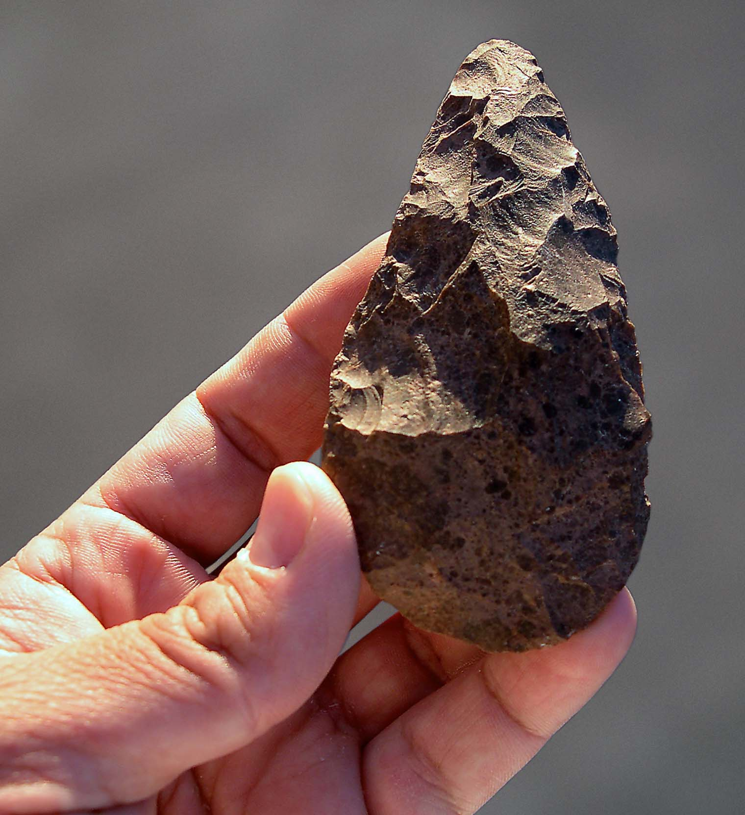 Experimentally replicated handaxe made in coarse grain flint from the village fo Mucientes in the Valladolid province (Spain).